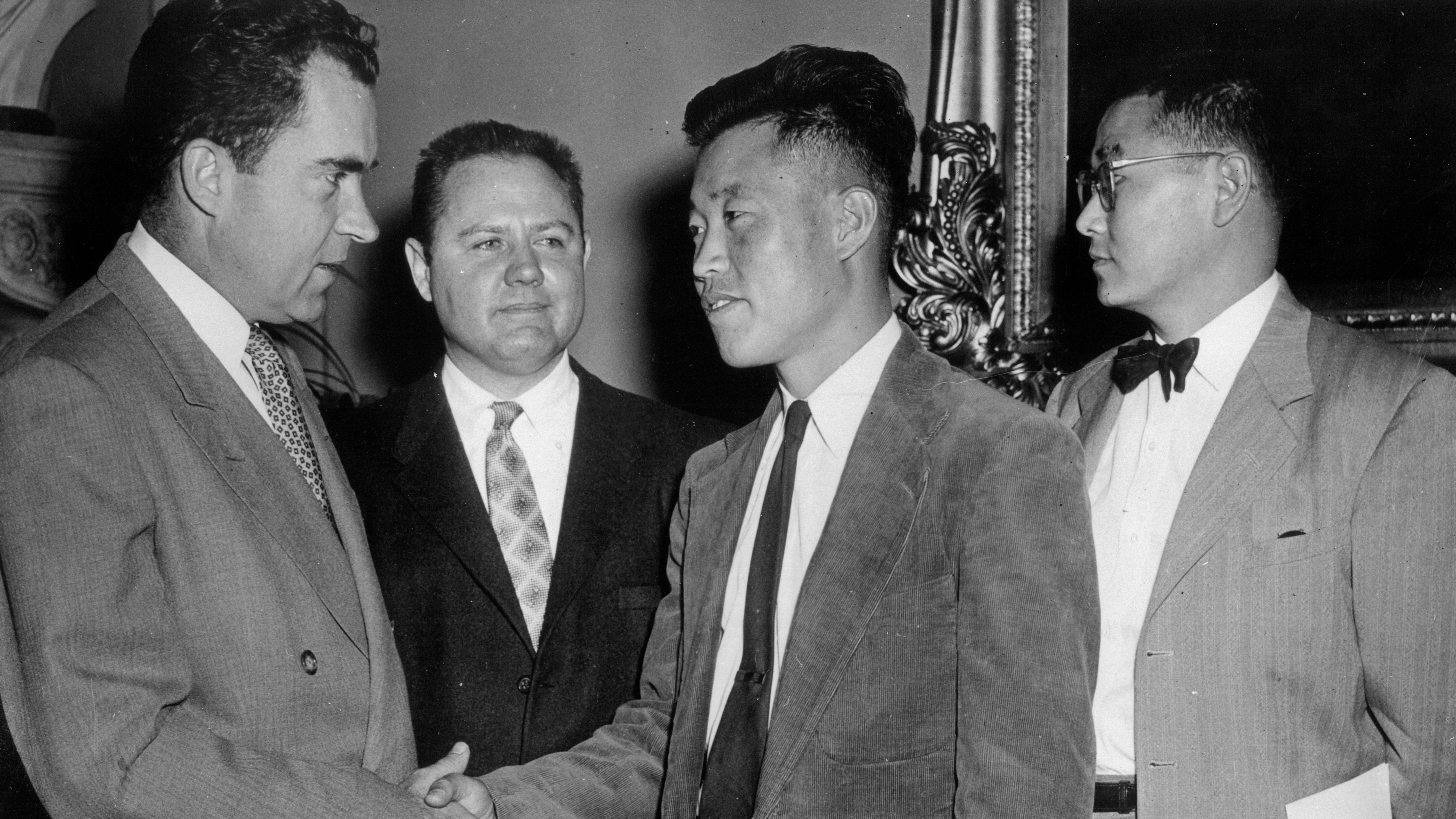 No Kum-sok, May 1954